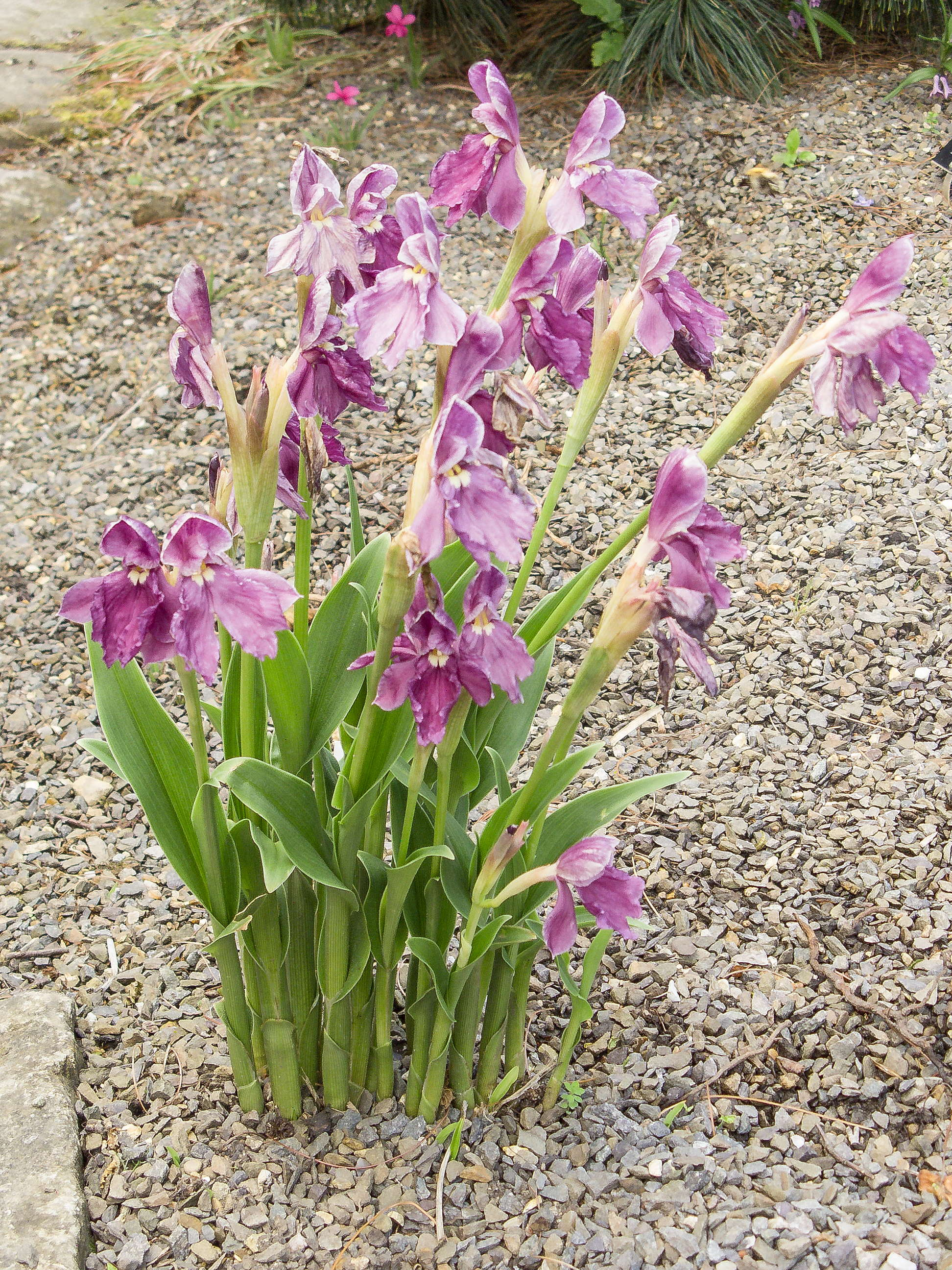 Roscoea cautleyoides 'Early Purple' growing in the rock garden, RHS Wisley